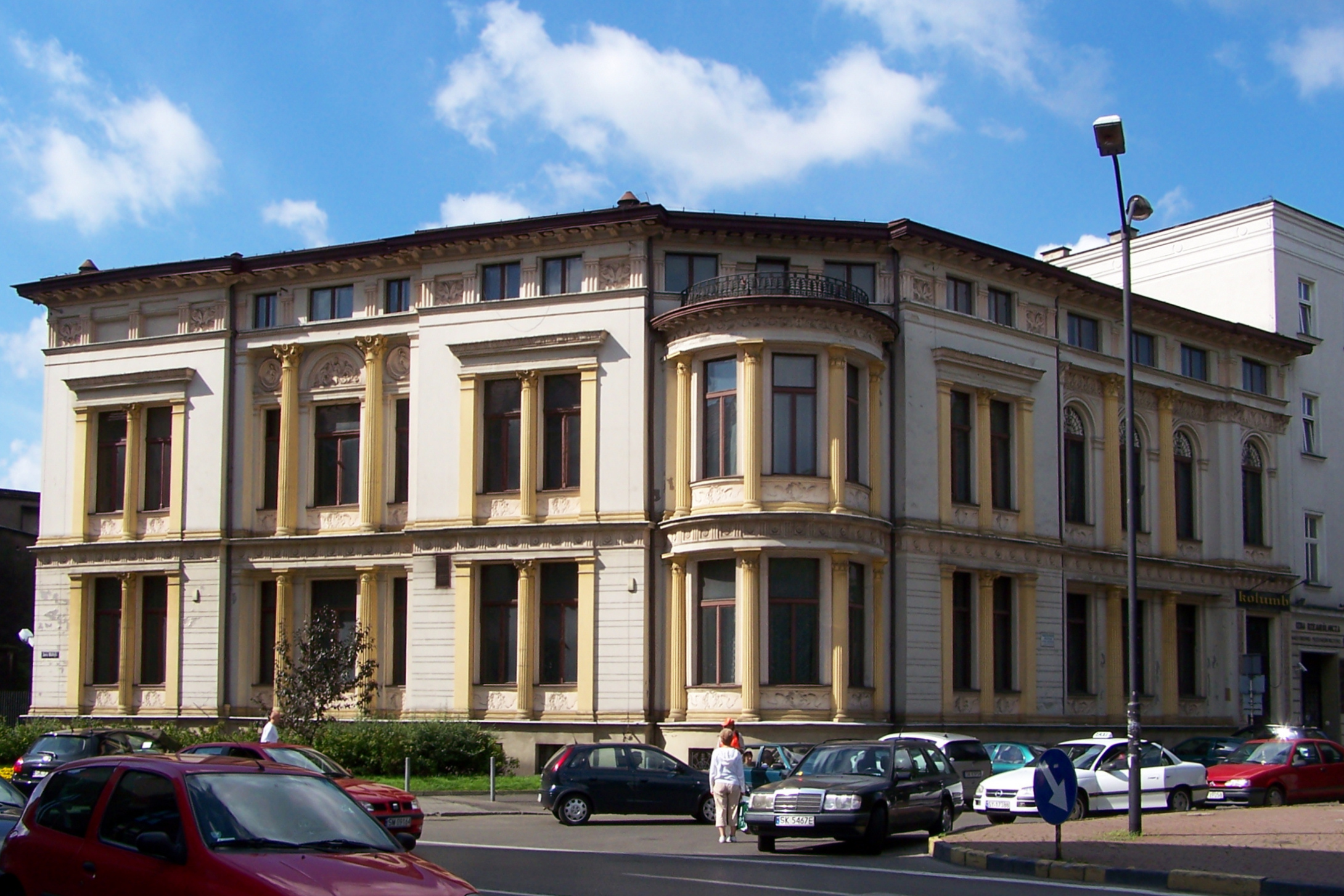 Palace of Goldstein family on the Wolności Square in Katowice (Poland).